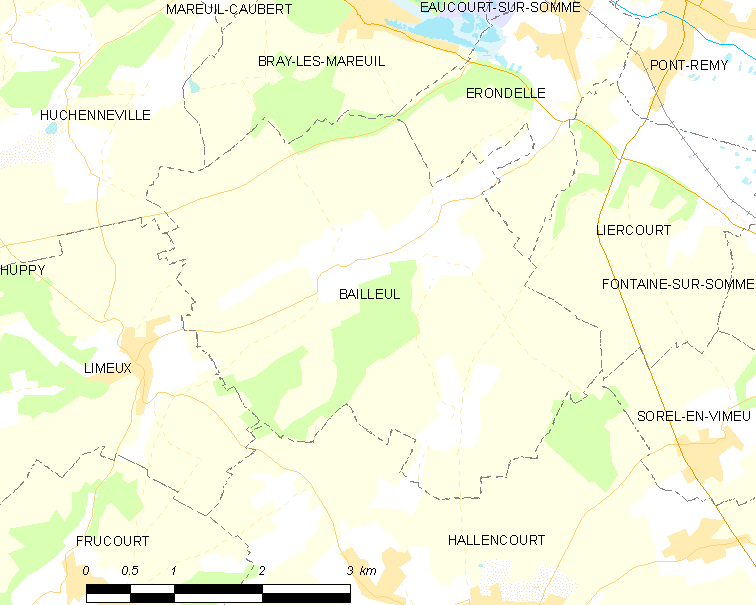 Map of French municipality Bailleul